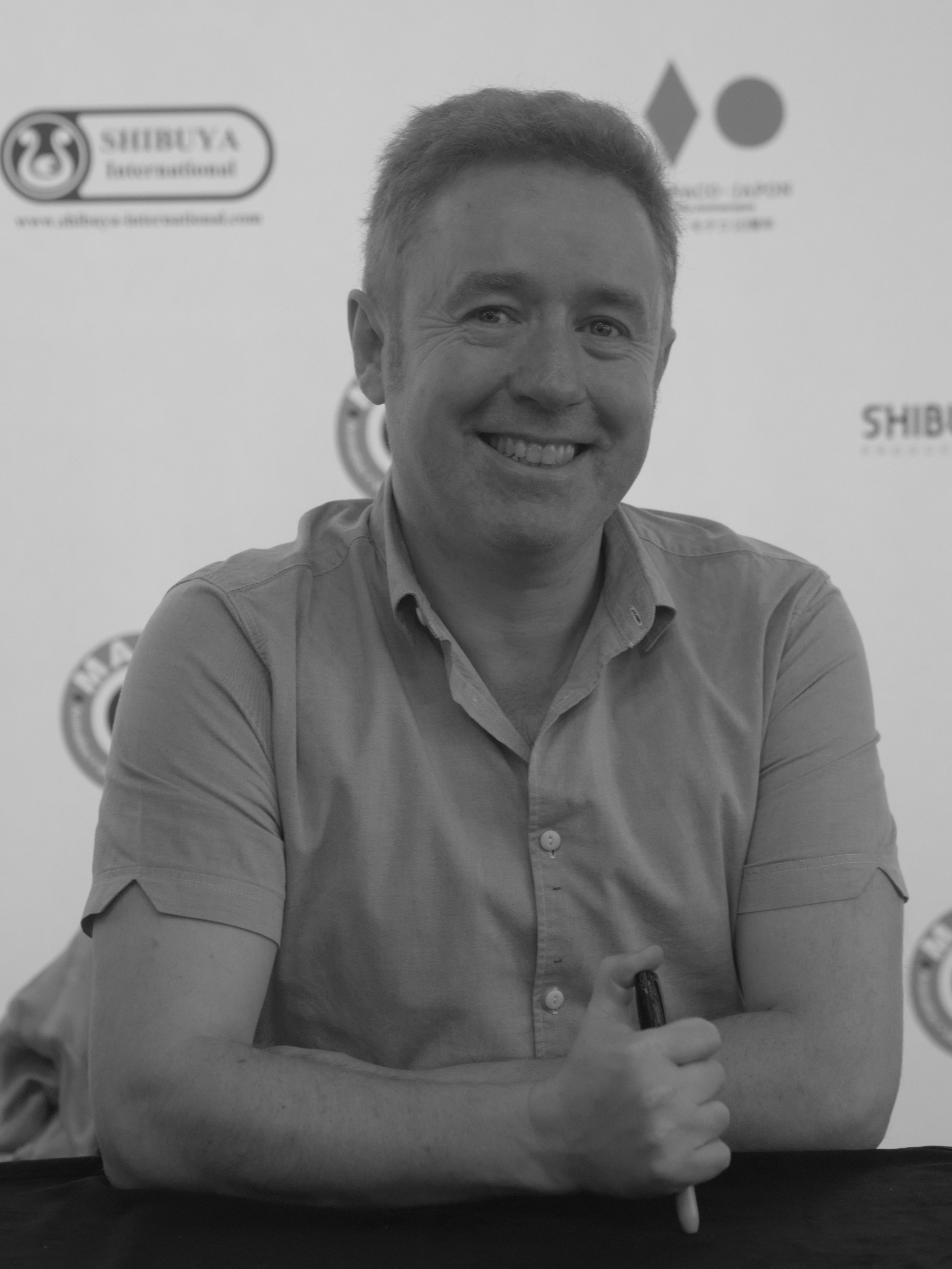 Photograph taken at the 2016 edition of the "Monaco Anime Game International Conferences" (MAGIC) organized by Shibuya International in Monaco.